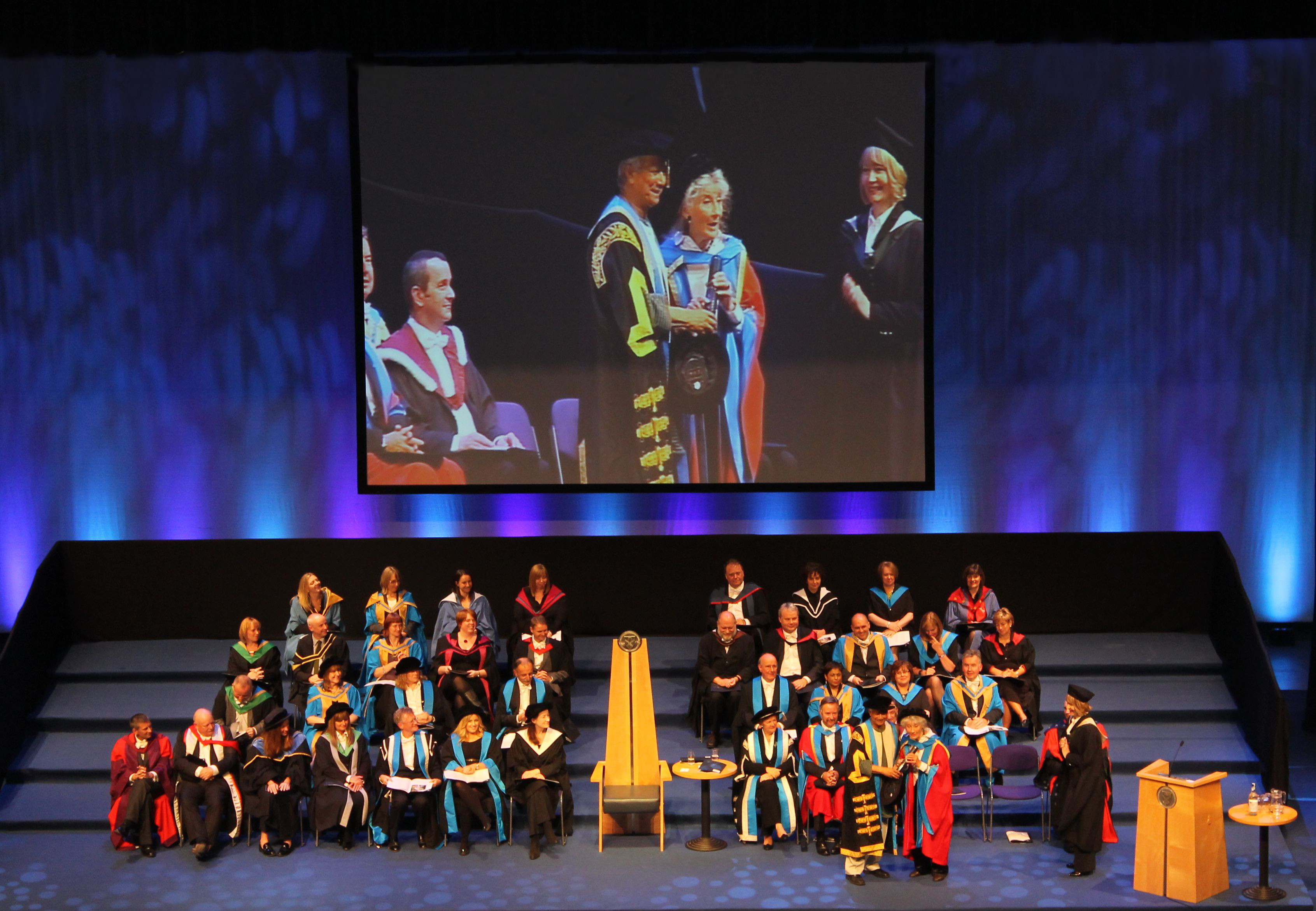 The actress Phyllida Law receives an honorary doctoral degree (Dr. h.c.) from Mohammad Yunus, Chancellor of Glasgow Caledonian University in Scotland. (2013-07-04)